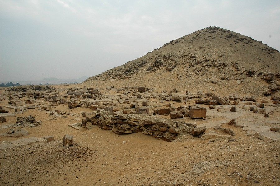 The Pyramid of Djedkare-Isesi and the Mortuary Temple east of it, late 5th Dynasty, ca. 2400 BC Chr., Saqqara South.